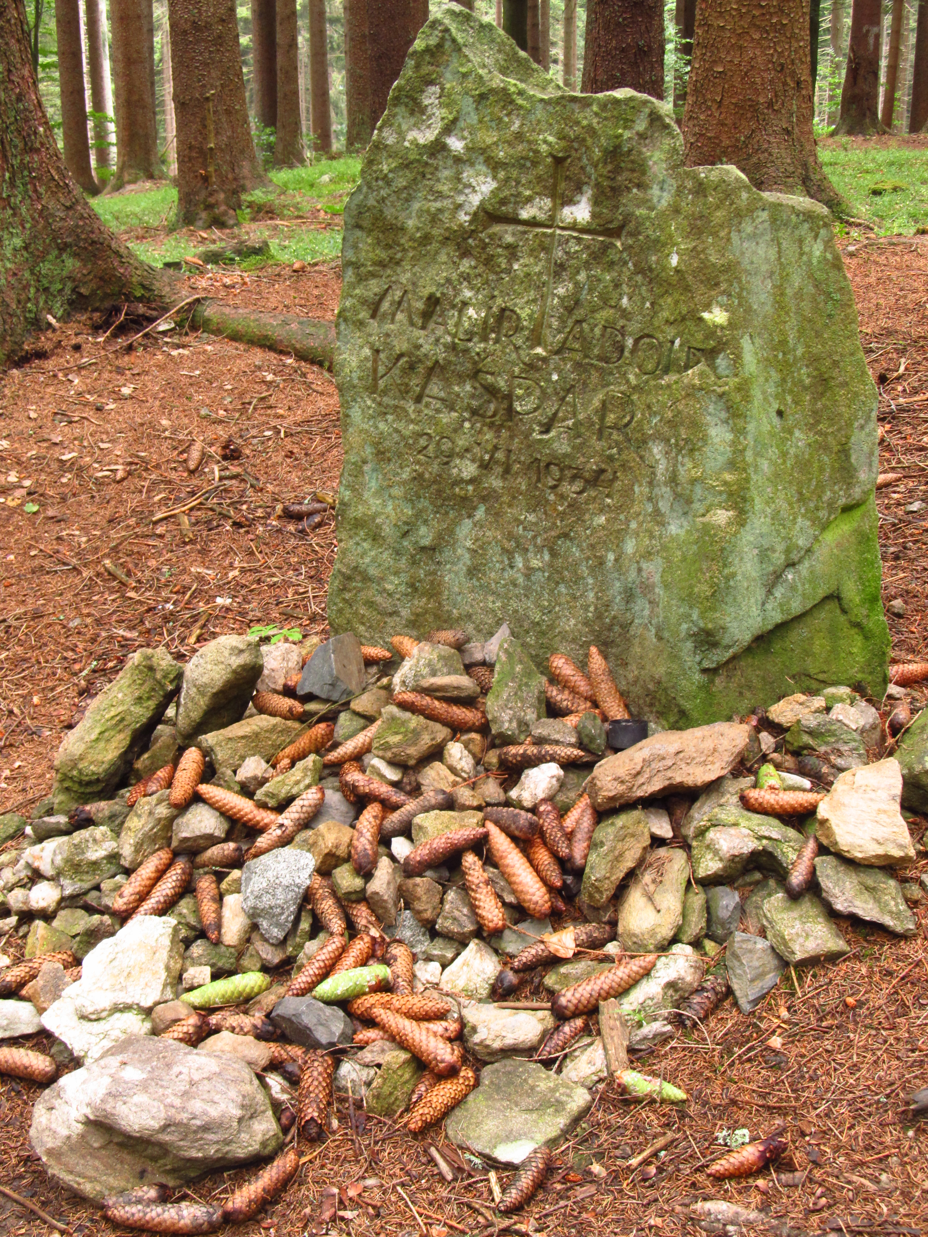 Monument of czech painter Adolf Kašpar